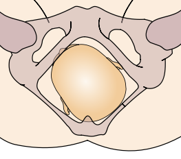 The left occipito-anterior variant of cephalic presentation